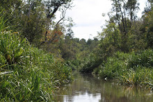 the view of Pematang Gadung Peat Forest